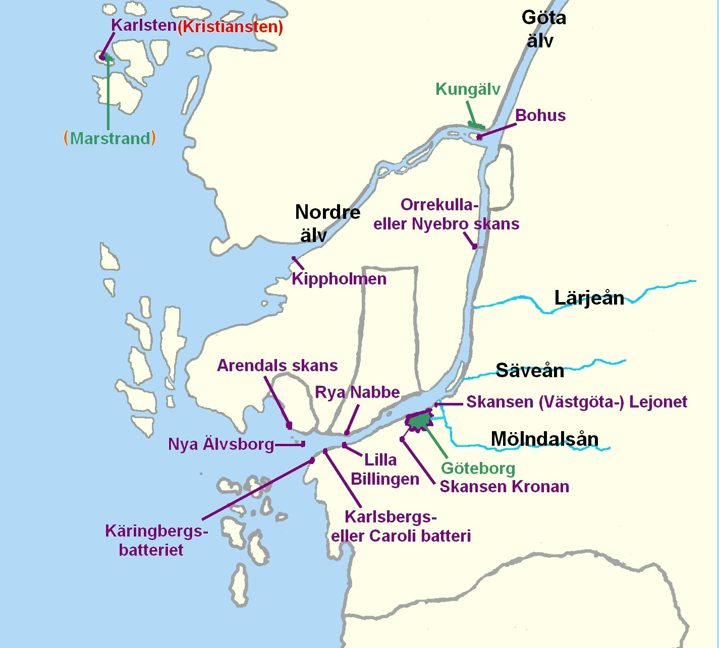 Map showing fortifications and cities in the Göta älv-area connected to the end of the Great Northern war 1719-1720. Denmark-Norway was in possession of Karlsten fortress, and the town Marstrand during this period. Purple: Swedish fortifications, Green: Swedish towns.